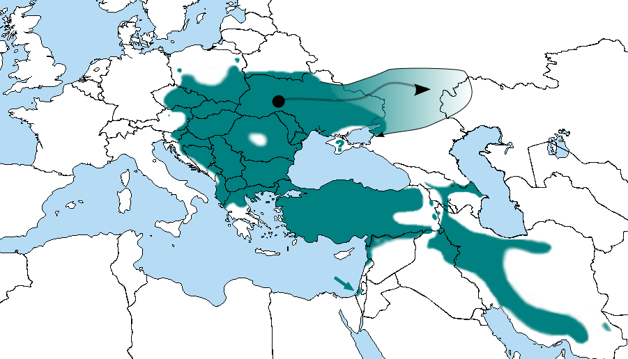 DistributionMap for Dendrocopos syriacus - updated